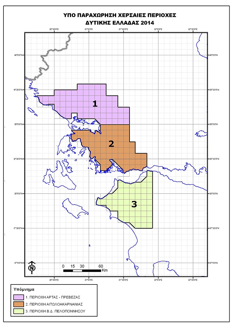 Εxploration and exploitation of hydrocarbons in Onshore Western Greece